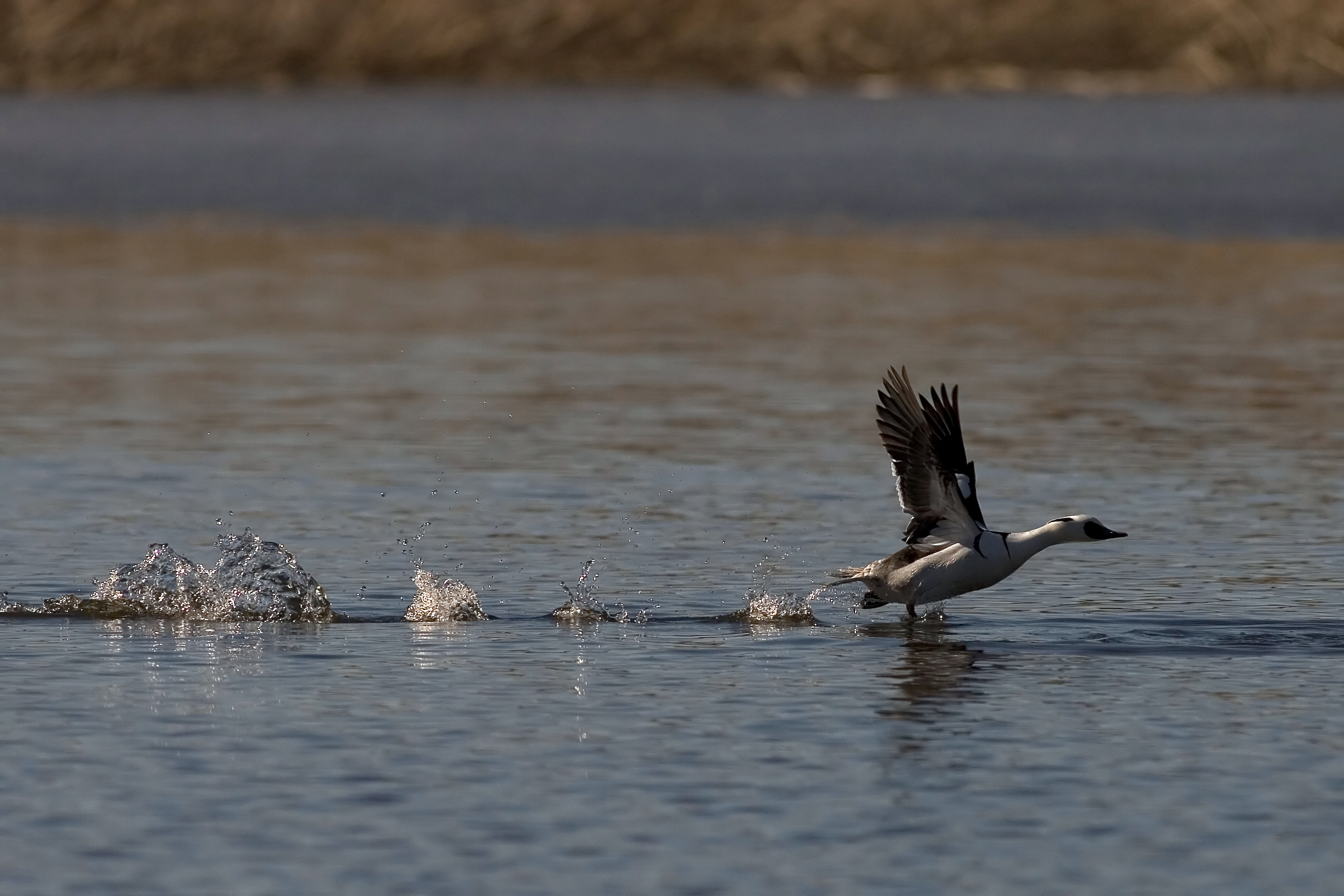 Smew (Mergellus albellus) accelerating to flight. The image has been rotated 180 degrees around vertical axis. Photographed at Vanhankaupunginlahti, Helsinki, Finland. The location is listed in Ramsar "List of Wetlands of International Importance". Geographic location (N):23355 (E):52520.